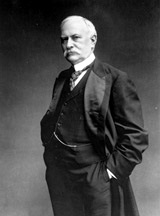 Joseph Benson Foraker, 37th Governor of Ohio, USA